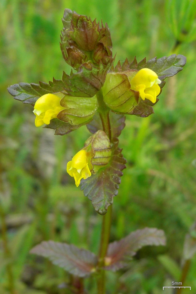 Rhinanthus crista-galli L. 20090619.17 near McCleod, BC